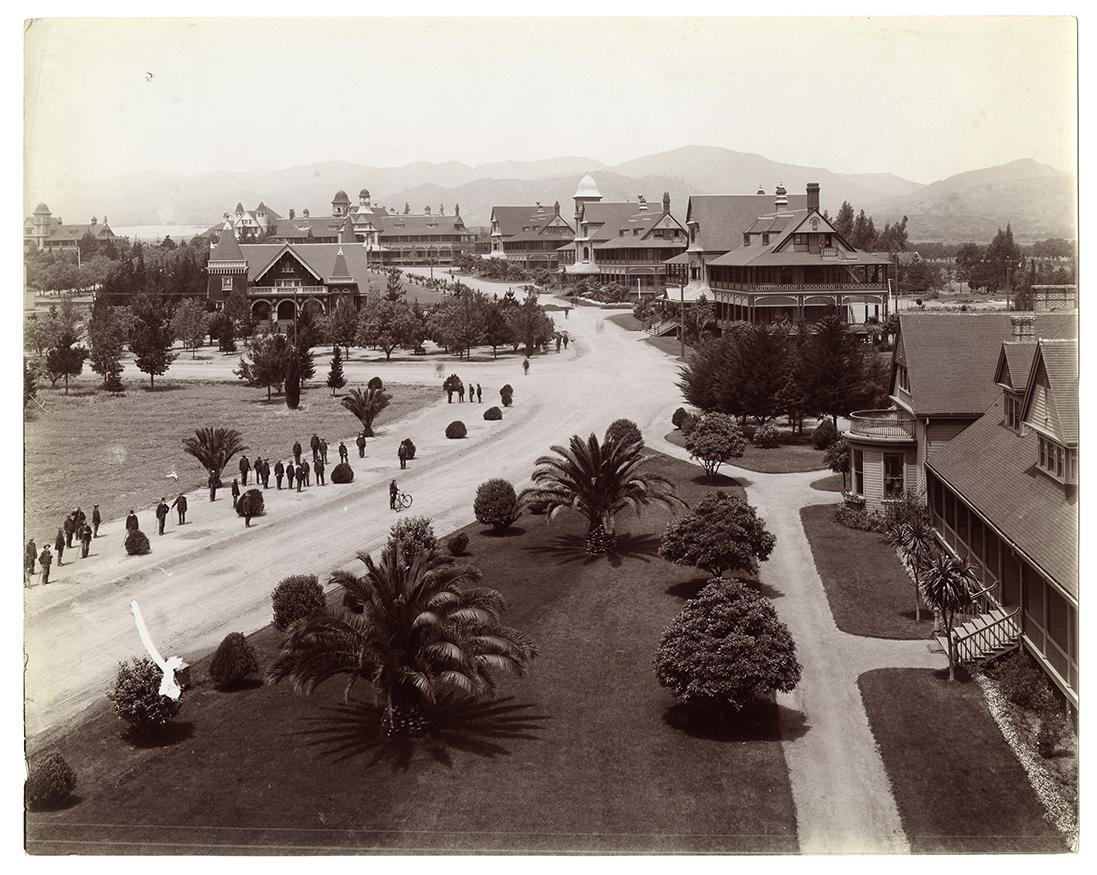 Title: Soldiers’ Home [Sawtelle Veterans Home] Repository: California Historical Society Digital object ID: CHS2013.1297 Collection: Views of Los Angeles, California Photographer: Putnam and Valentine Date: Undated Format: Photographic print: b&w; 20 x 25 cm. General notes: Putnam & Valentine was a partnership of J.R. Putnam and W.S. Valentine, stereo photographers active in Los Angeles, circa 1898-1912. Preferred citation: Soldiers’ Home, Views of Los Angeles, California, courtesy, California Historical Society, CHS2013.1297.